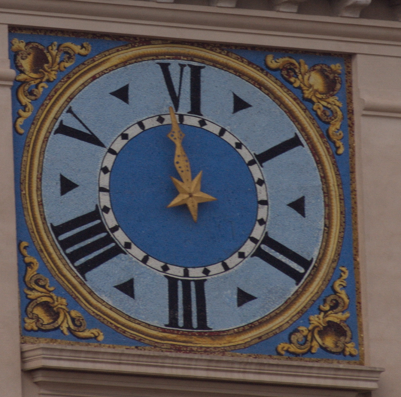 orologio a sei ore